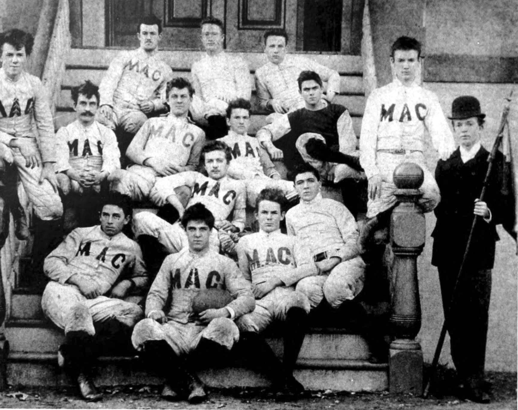 Team photograph of the 1892 Maryland Aggies football team of the Maryland Agricultural College